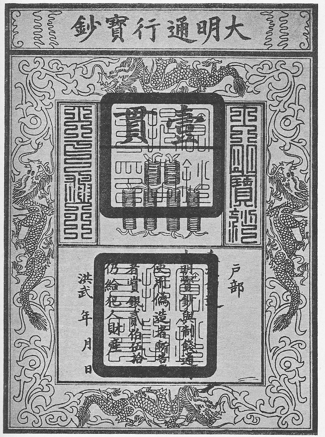 A note for 1000 cash issued between 1368 and 1399. 34x22.5 cms. Printed in black on paper with red seal impressions for extra security. "By the time this note was issued, seal impressions and printing, once identical, had become as clearly distinguished as our postmark and postage stamp are today". (Carter)